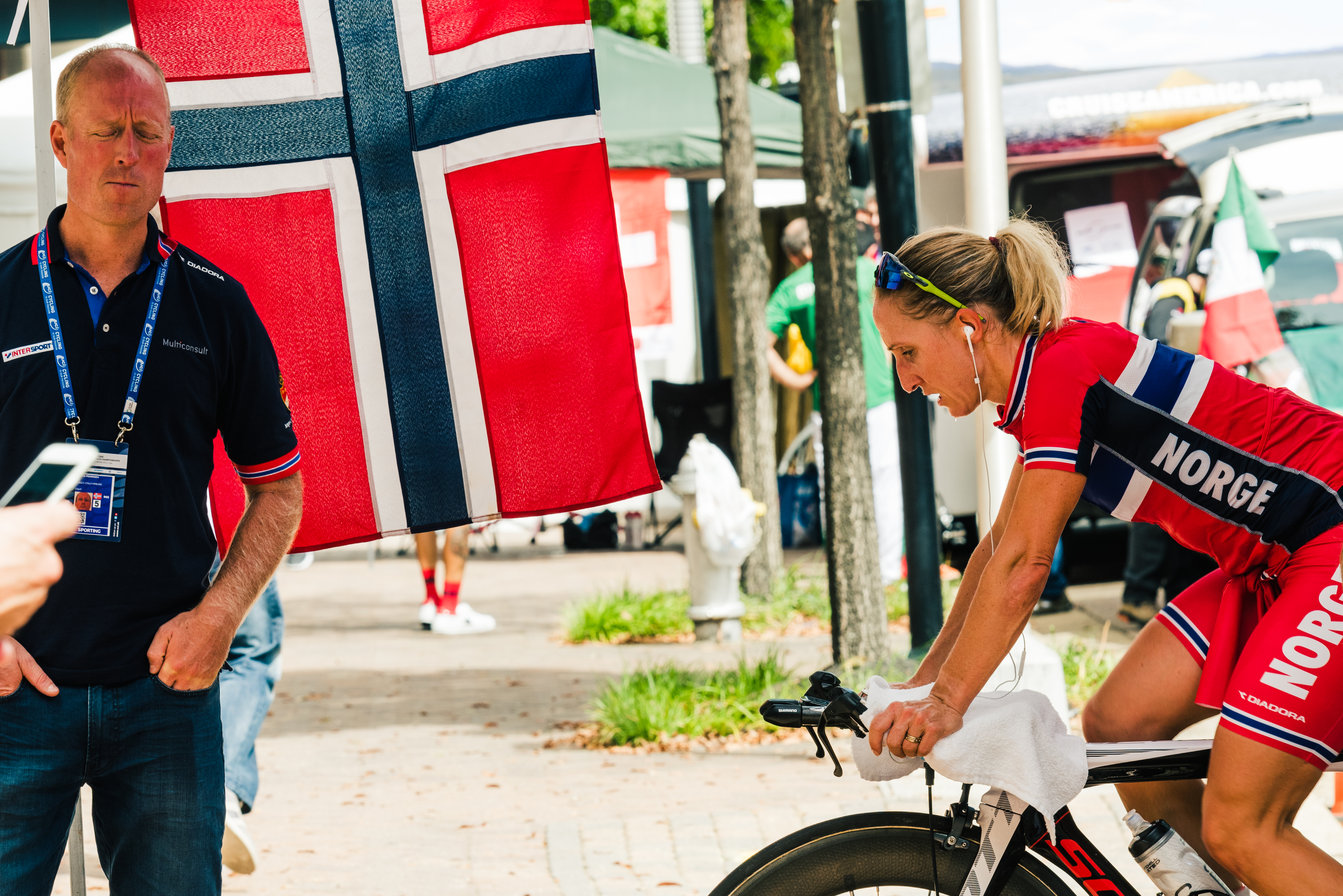 UCI Bike Race 2015 Richmond, VA 2015 UCI Road World Championships – Women's time trial in Richmond, USA